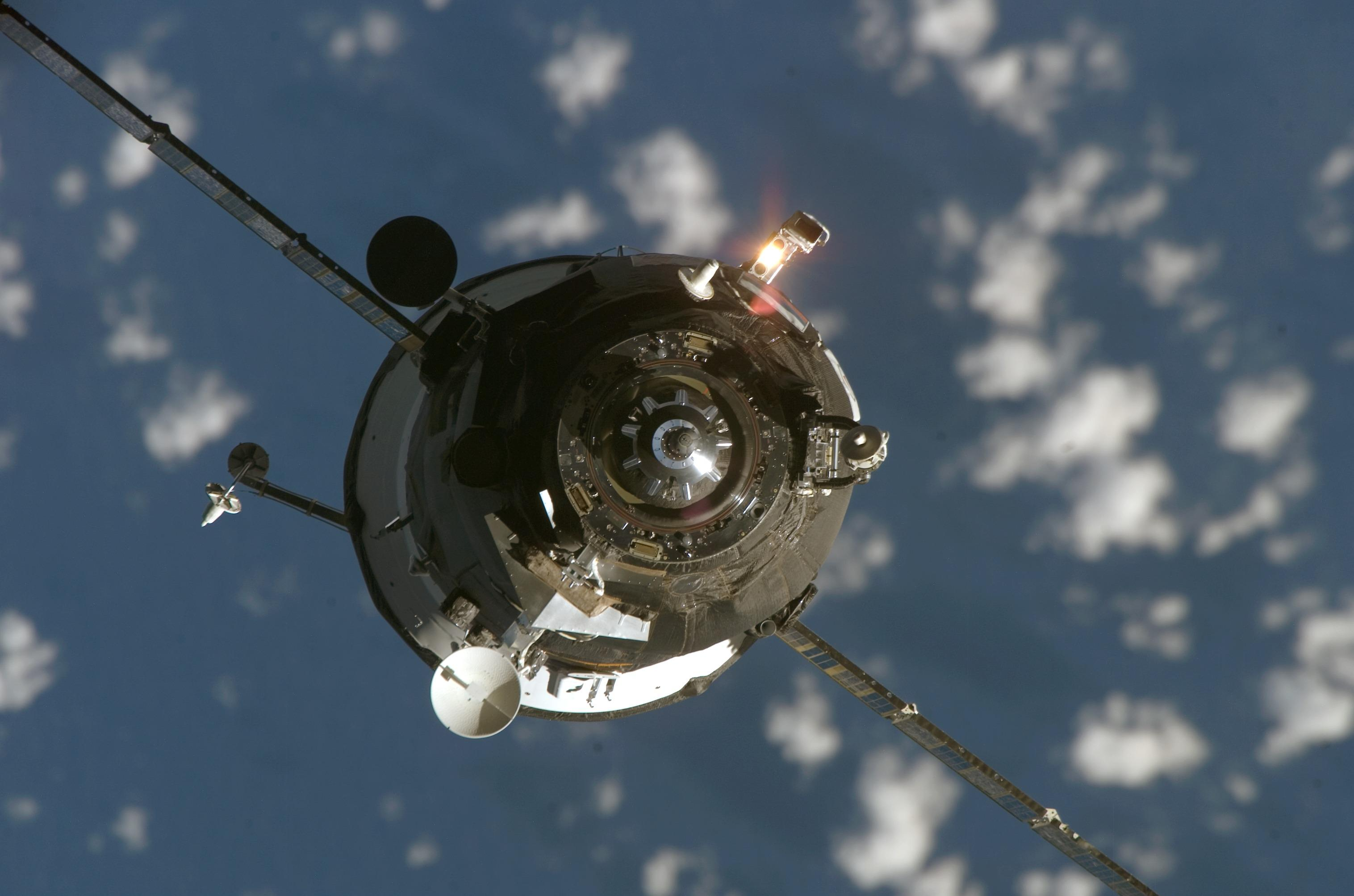 Progress M-59 seen from the International Space Station during docking.